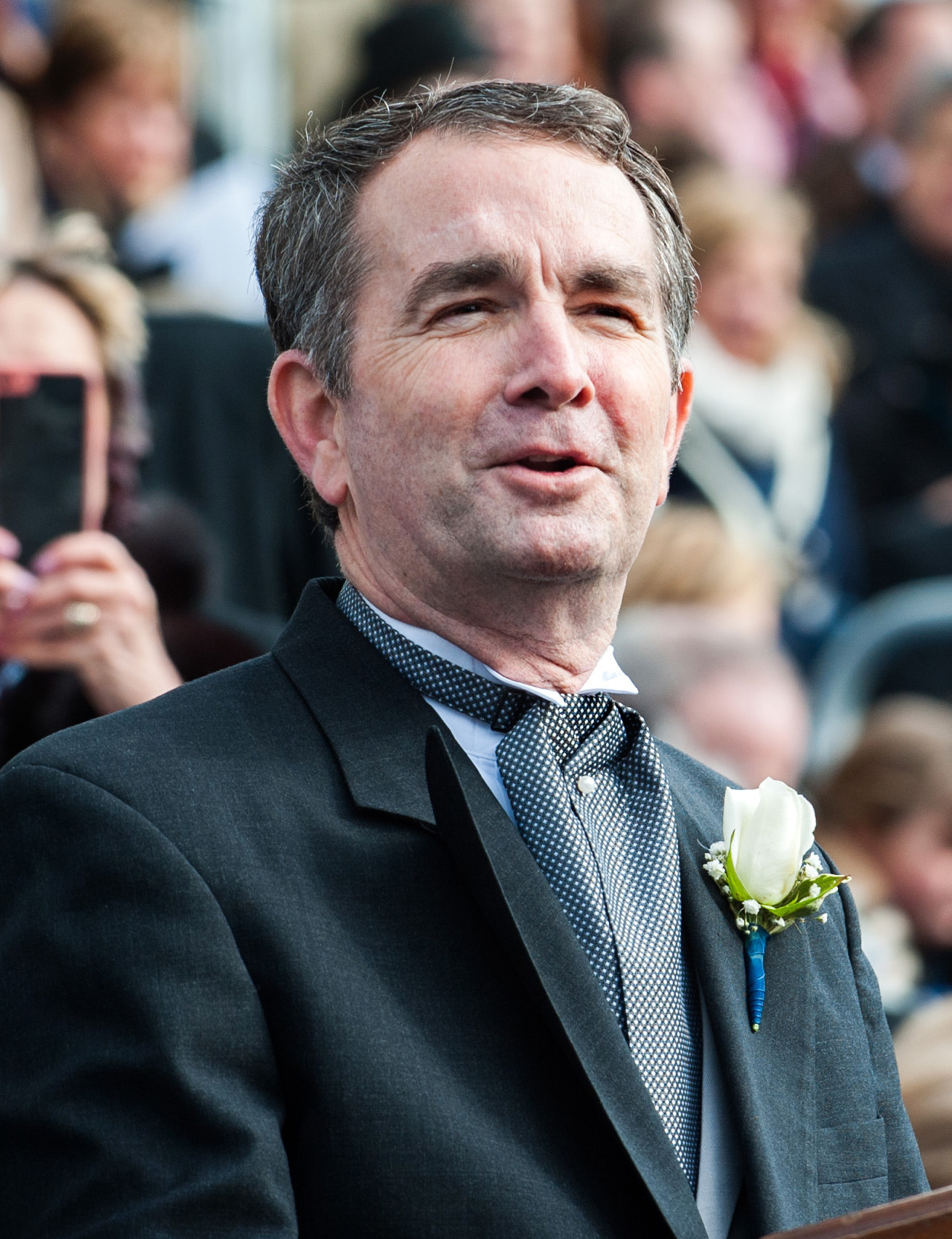 Governor Ralph Northam Gives Inaugural Address